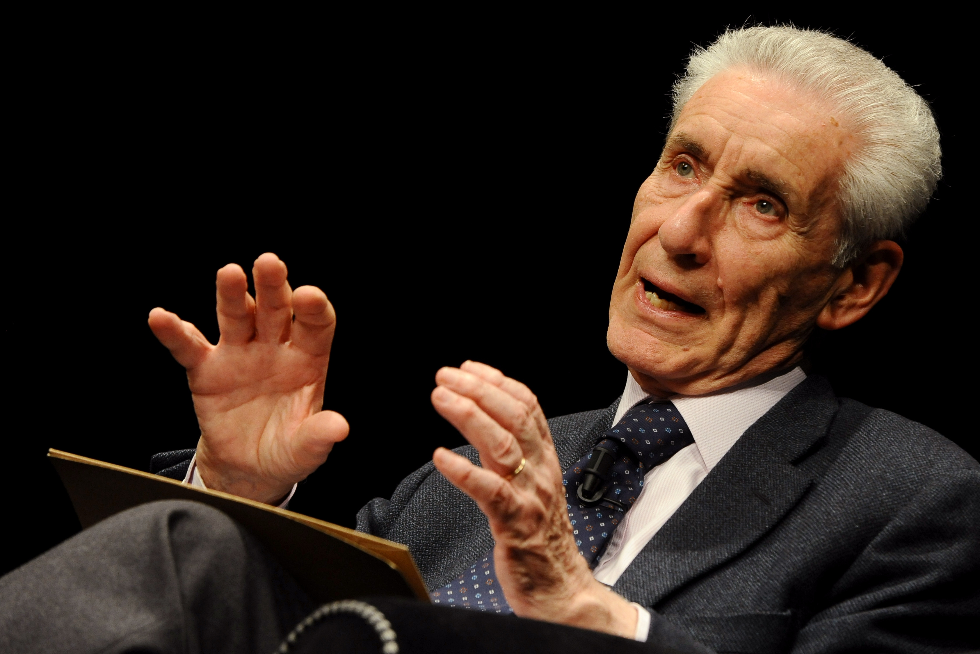 Stefano Rodotà at the Teatro Sociale in Trento for the Festival of Economics.